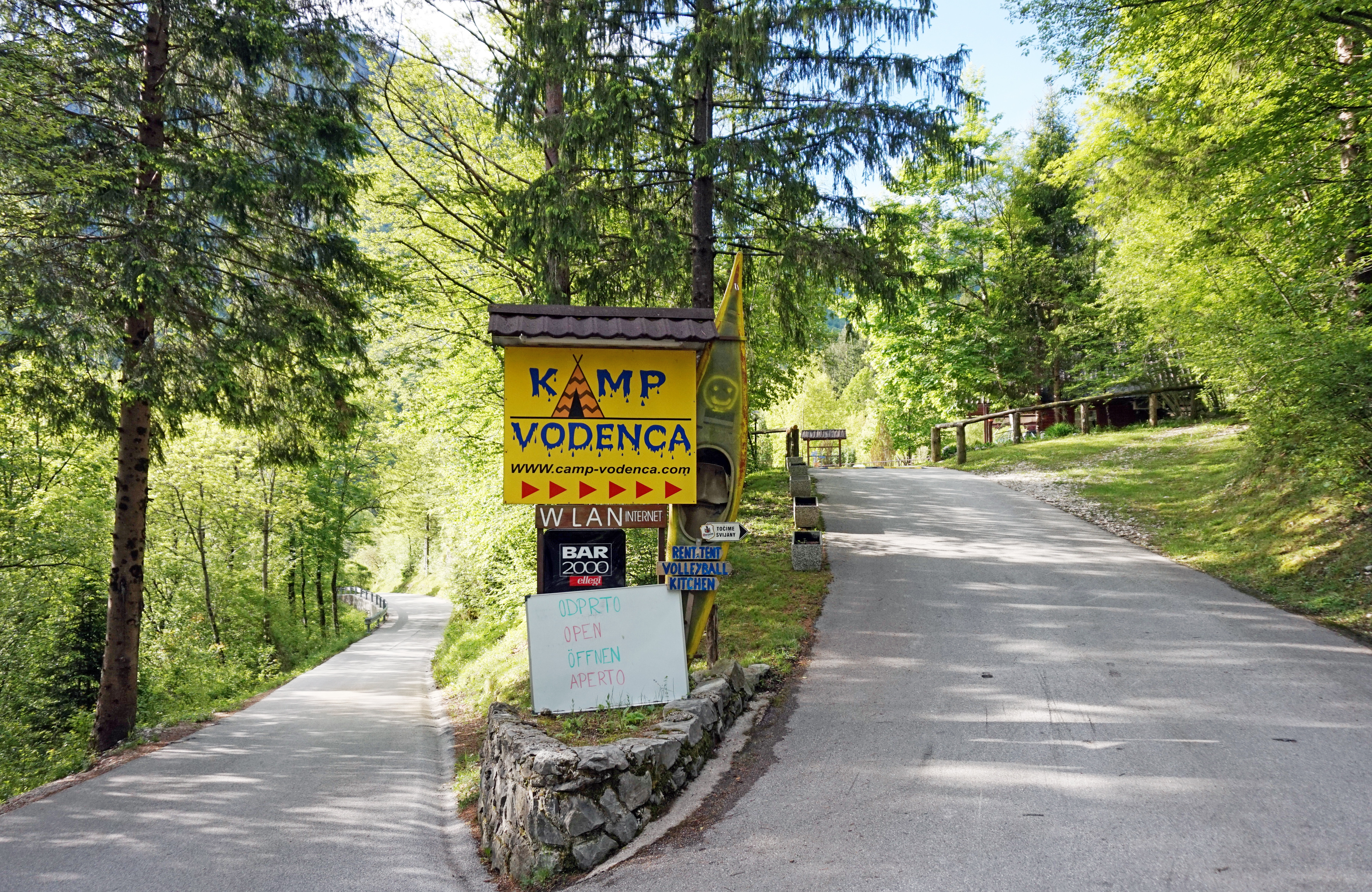 Camping sign in Bovec, Slovenia.This photograph was taken with a Sony ILCE-5000